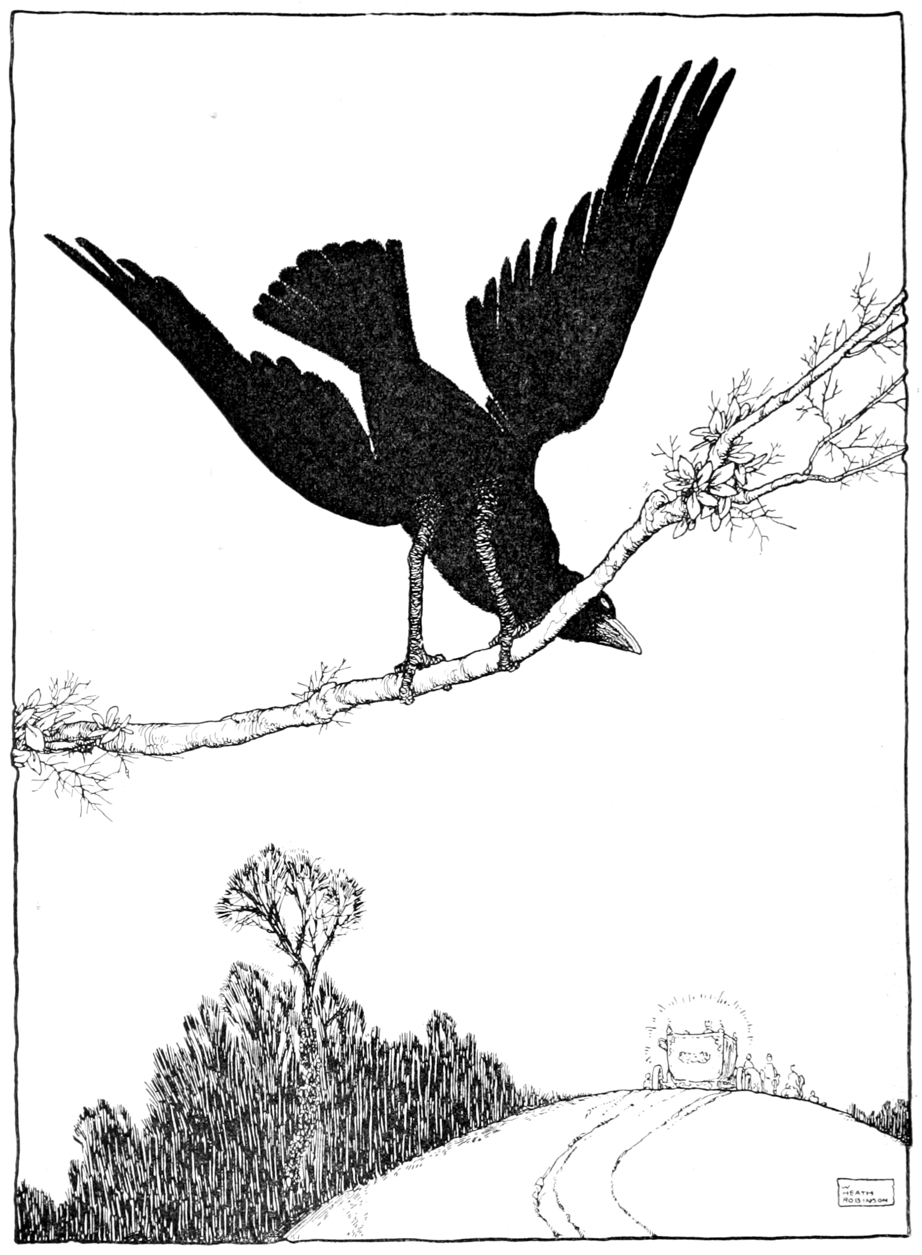 Illustration in Hans Andersen's fairy tales (1913) London: Constable.